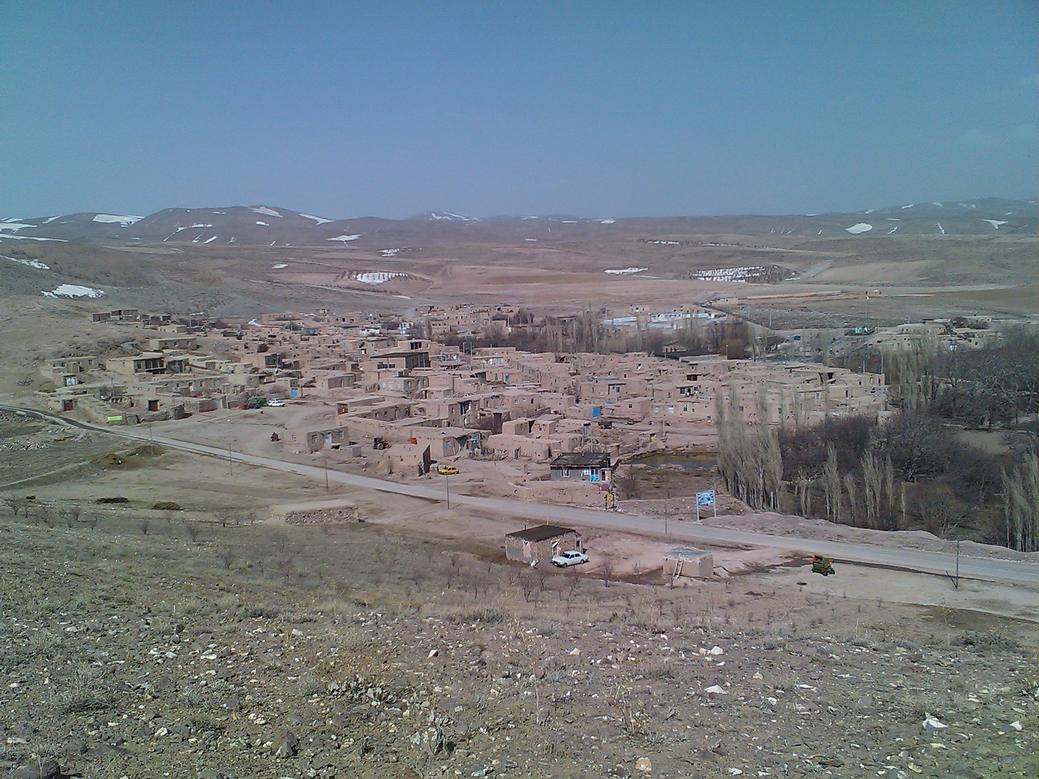 روستای کوه سخت نیشابور